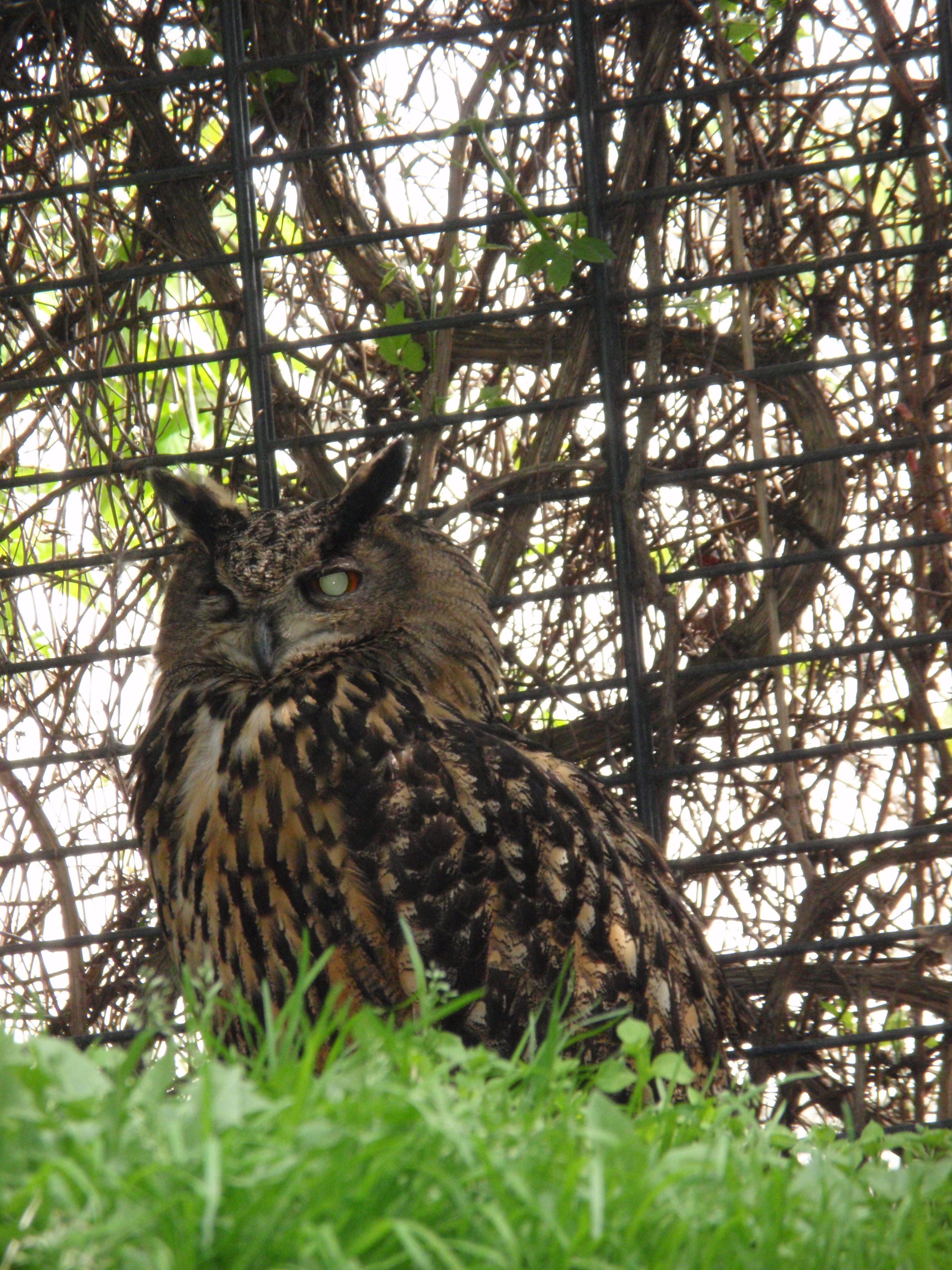 Eurasian Eagle-owl in the Luisenpark Mannheim (Germany)